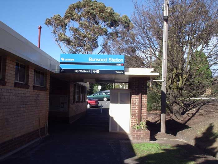 Burwood Railway Station, Melbourne.